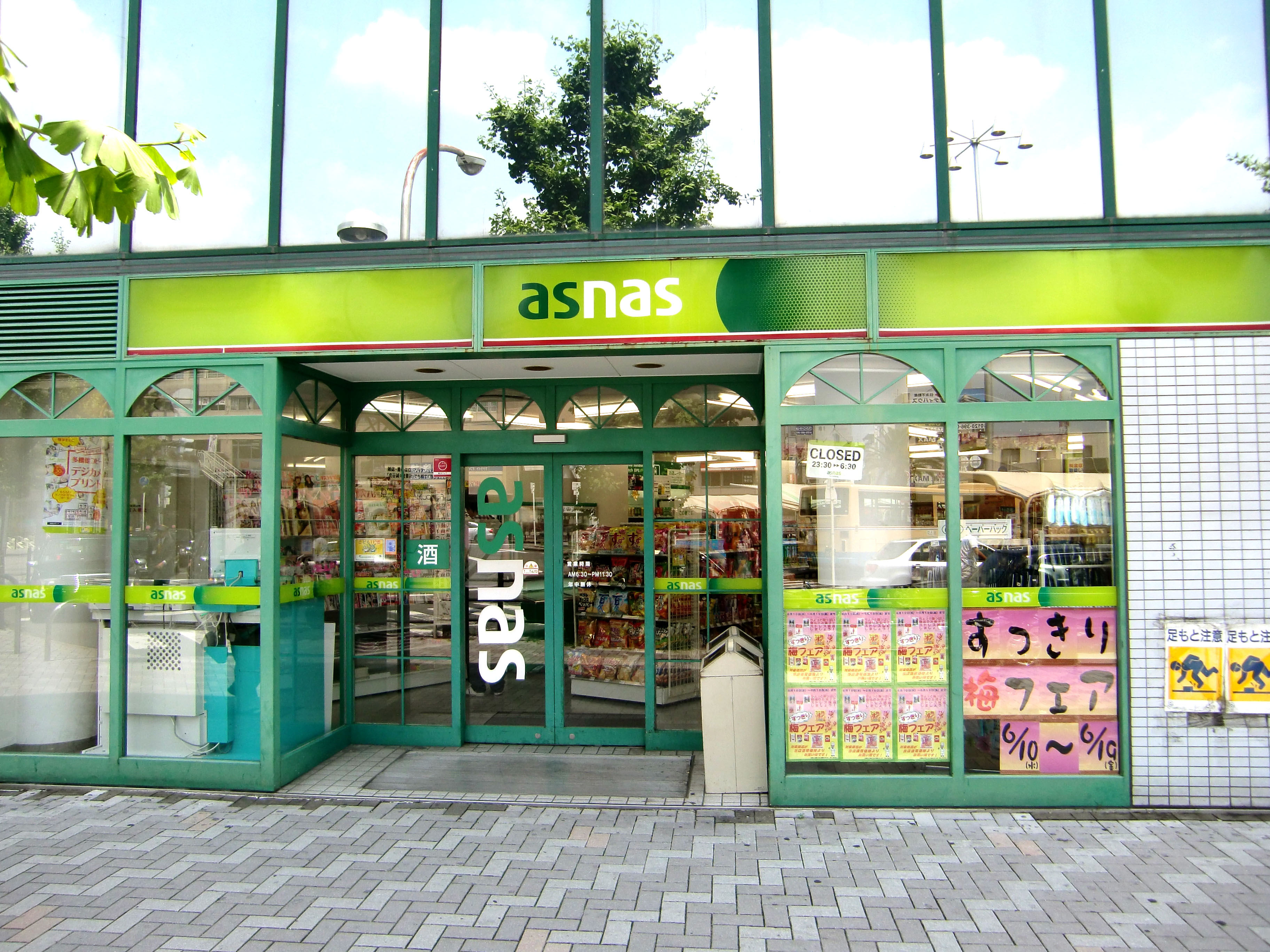 asnas Ibaraki,Eidai-Cho Ibaraki-City Osaka JAPAN.